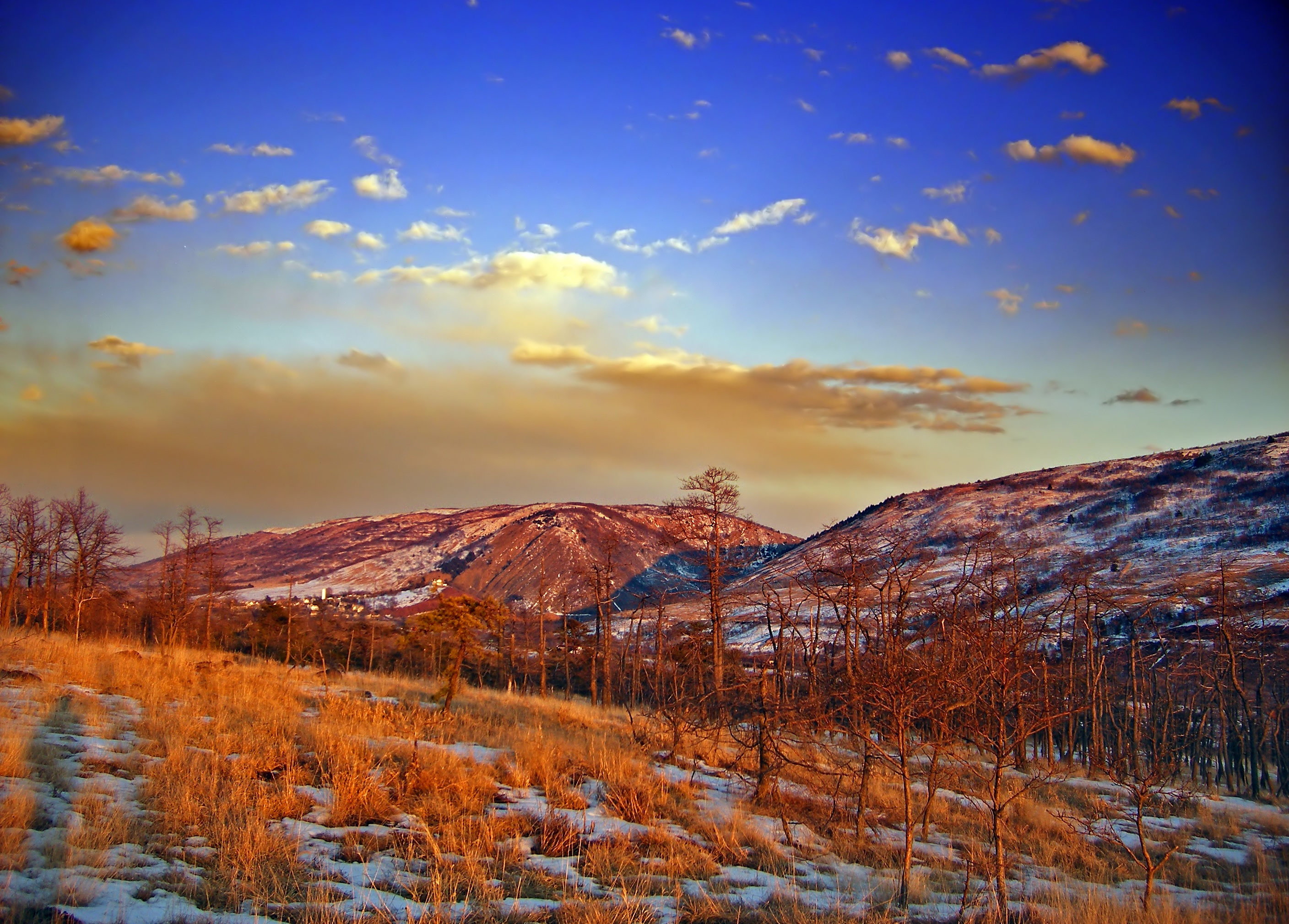 Late-day light, Blue Mountain, Carbon and Lehigh Counties, as seen from a hillside near Palmerton. Note the largely denuded slopes of Blue Mountain, as well as the scrub-oak barren on the hill in the foreground. For many years, toxic metals from nearby zinc smelters degraded the local environment, destroying vegetation and helping create soil erosion. The zinc smelters have closed; the area is now an Environmental Protection Agency Superfund site, and the vegetation is recovering.